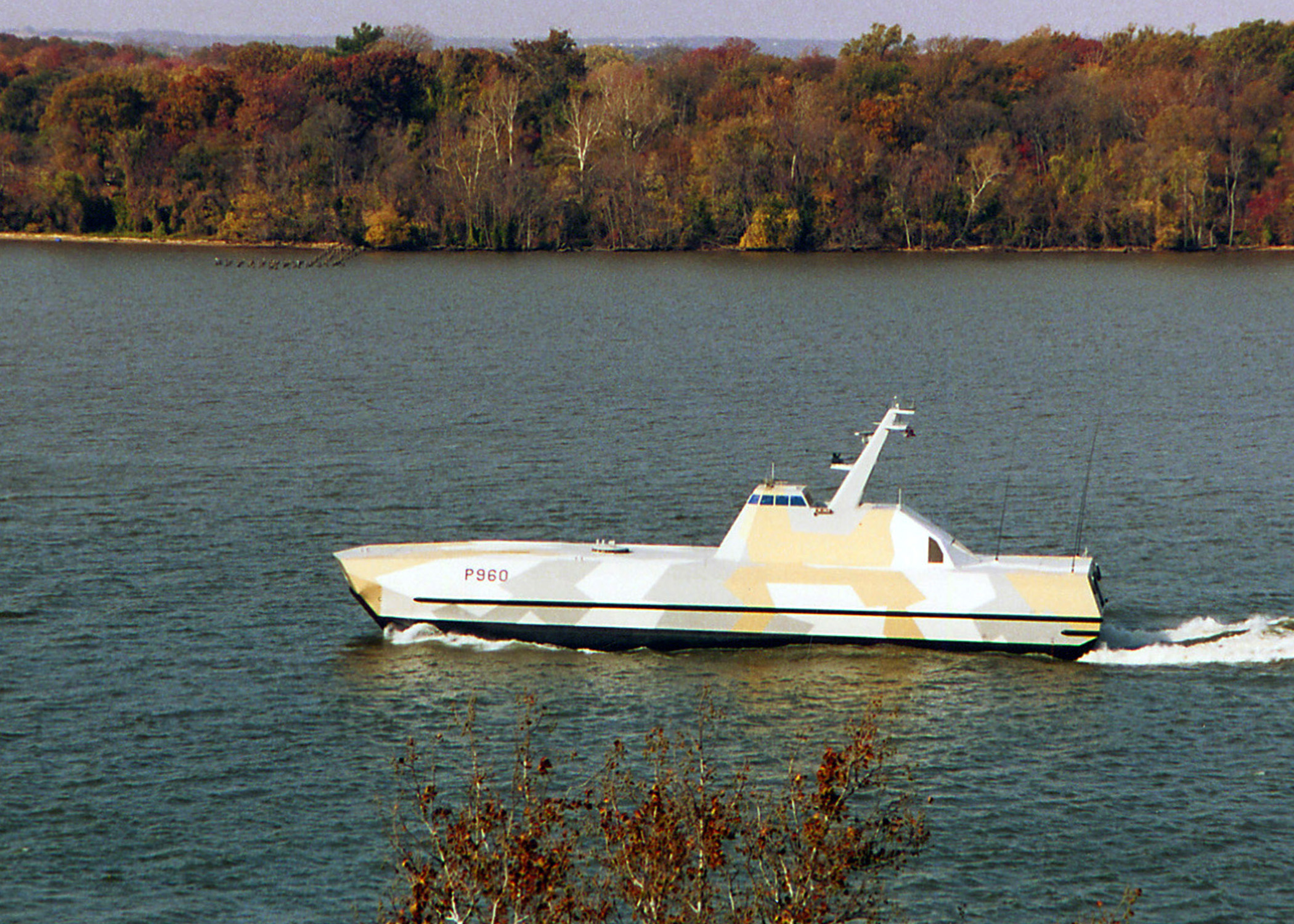 Ft. Washington, Maryland (Nov. 2, 2001) — Port side view of the Norwegian guided missile patrol craft Skjold (P 690) underway. The craft is painted in a splinter camouflage scheme.